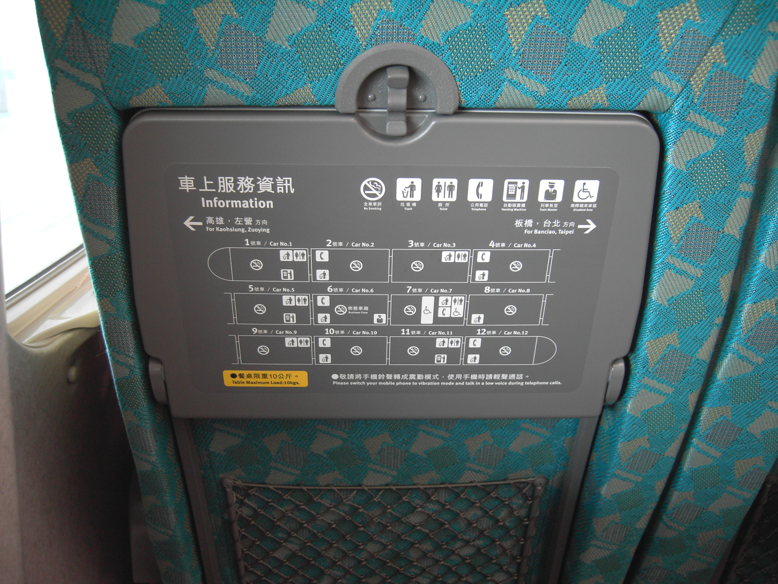 Taiwan High Speed Rail train T700T.